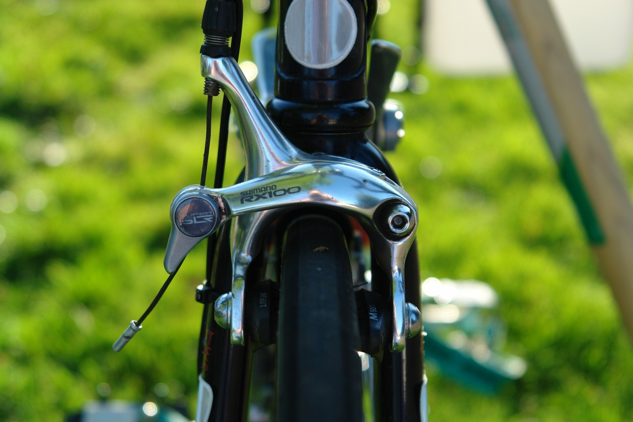 Shimano RX100 brakes on a Specialized Sirrus